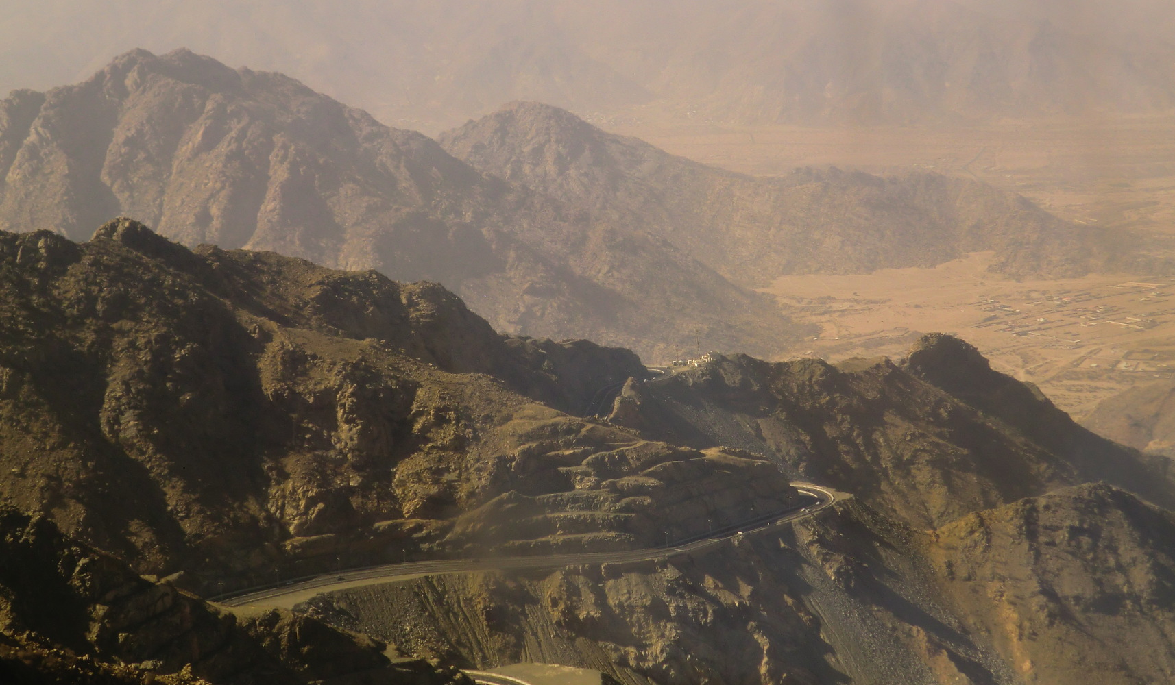 The Sarawat Mountains as seen from Ta'if city.